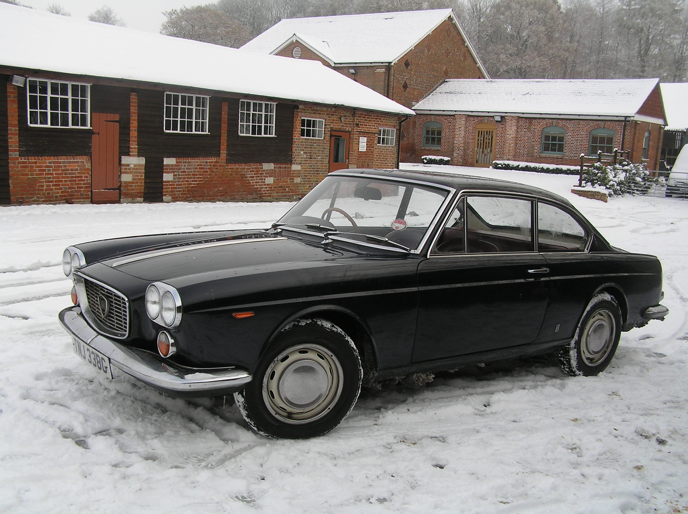 Lancia Flavia coupe 1800